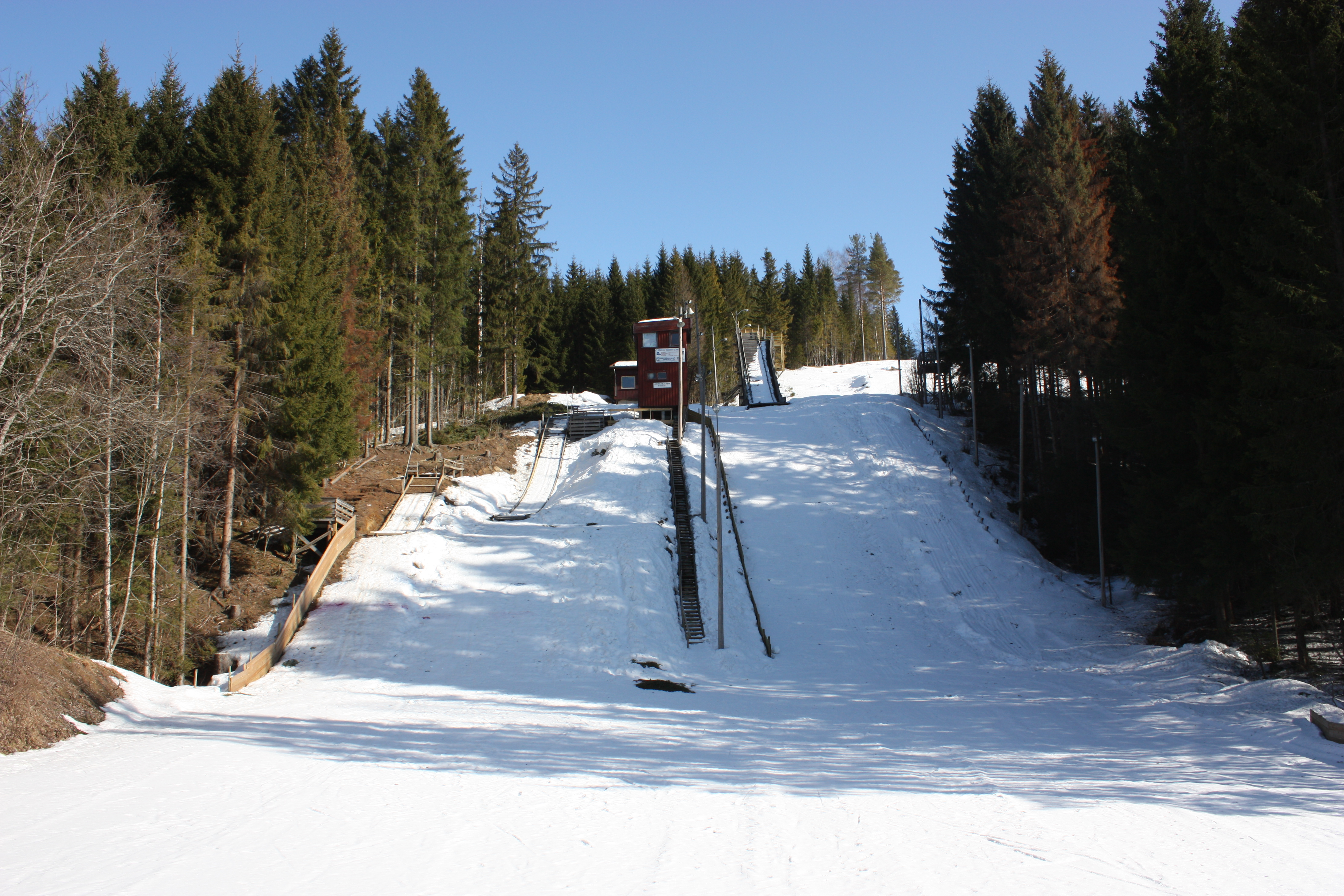 Lysakerbakken (Eidsvoll, Akershus, Norway), the ski jumping hill (K7, K13 and K27) of Eidsvold Værks Ski Club on 30 March 2011.